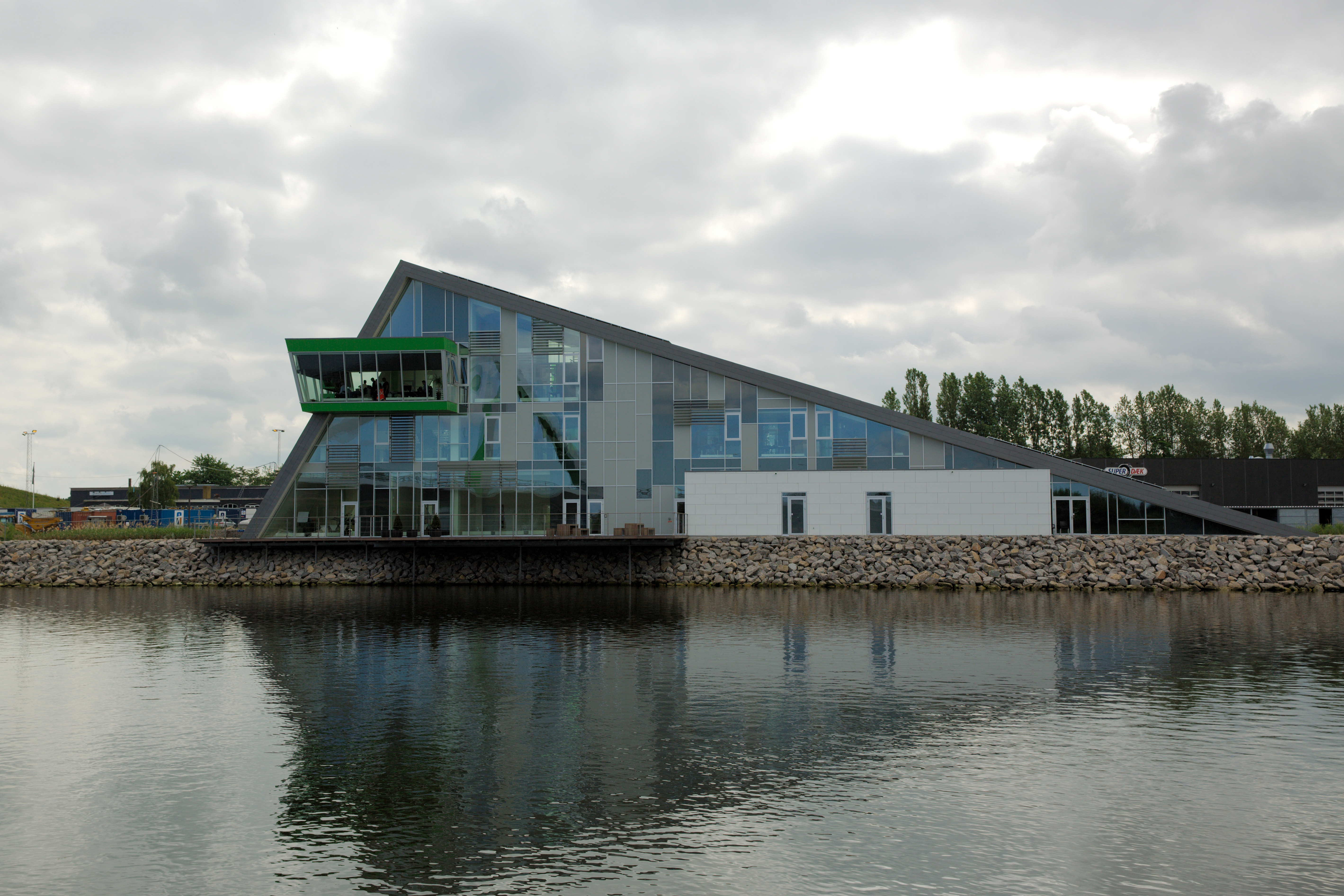 control tower for Odins Bridge